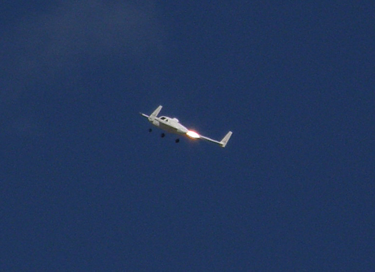 Xcor/Rocket Racing League Rocket Racer on its first flight to altitude at the Mojave Spaceport